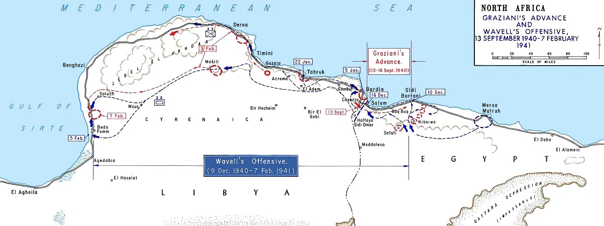 Graziani's advance and Wavell's offensive -- September 13, en:1940 - February 7, en:1941